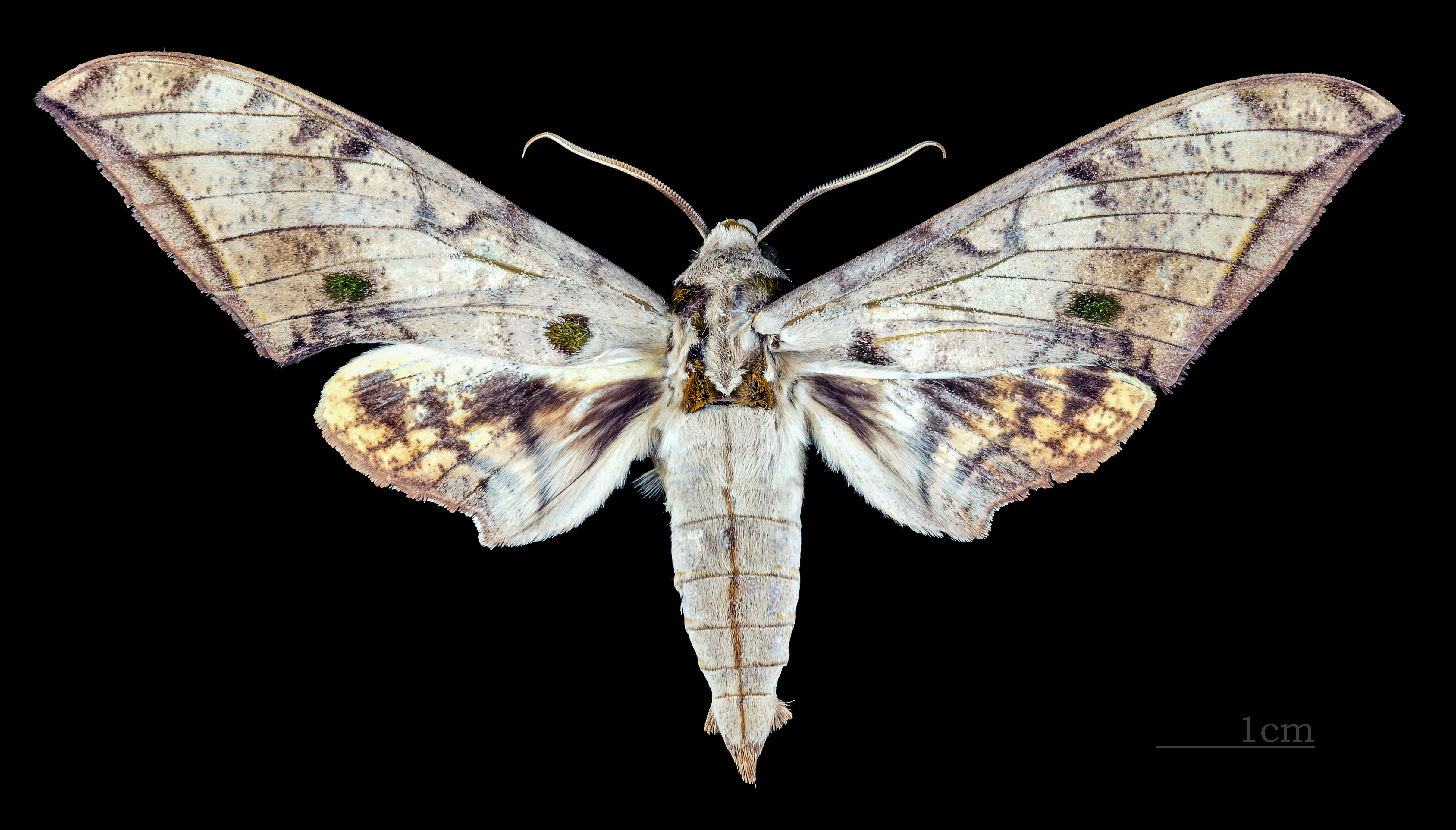 Ambulyx inouei - Dorsal side Collection of the Mathematician Laurent Schwartz